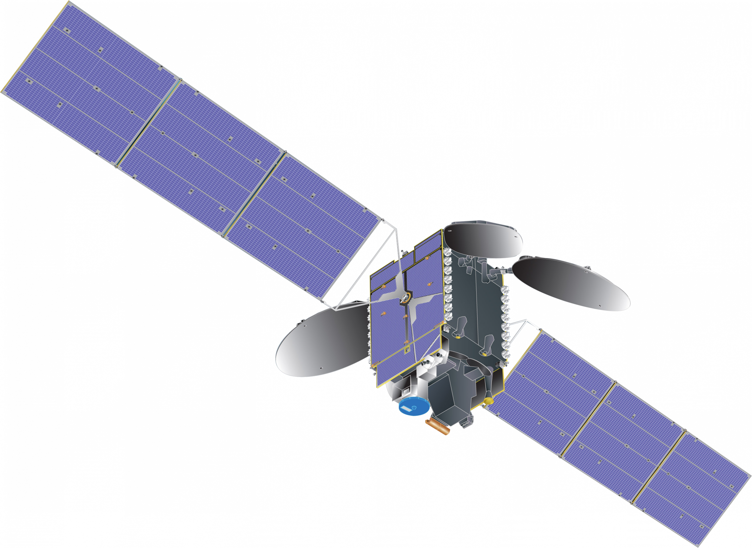 Image of a generic communications satellite with the TEMPO instrument (blue and silver at bottom) with transparent background.